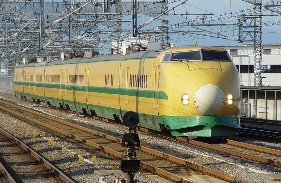 JR East Class 925-10 "Doctor Yellow" shinkansen track and overhead line inspection set S2 approaching Takasaki Station from the north on its last day in operation